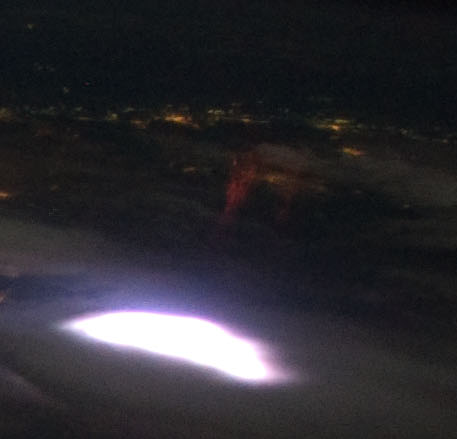 Image of a Sprite, as seen from the ISS. This is a still image from a time-lapse movie.